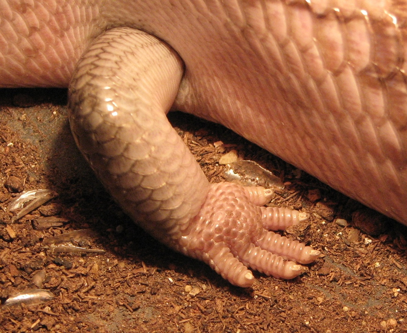 The bottom of the left front leg of an adult Tiliqua scincoides